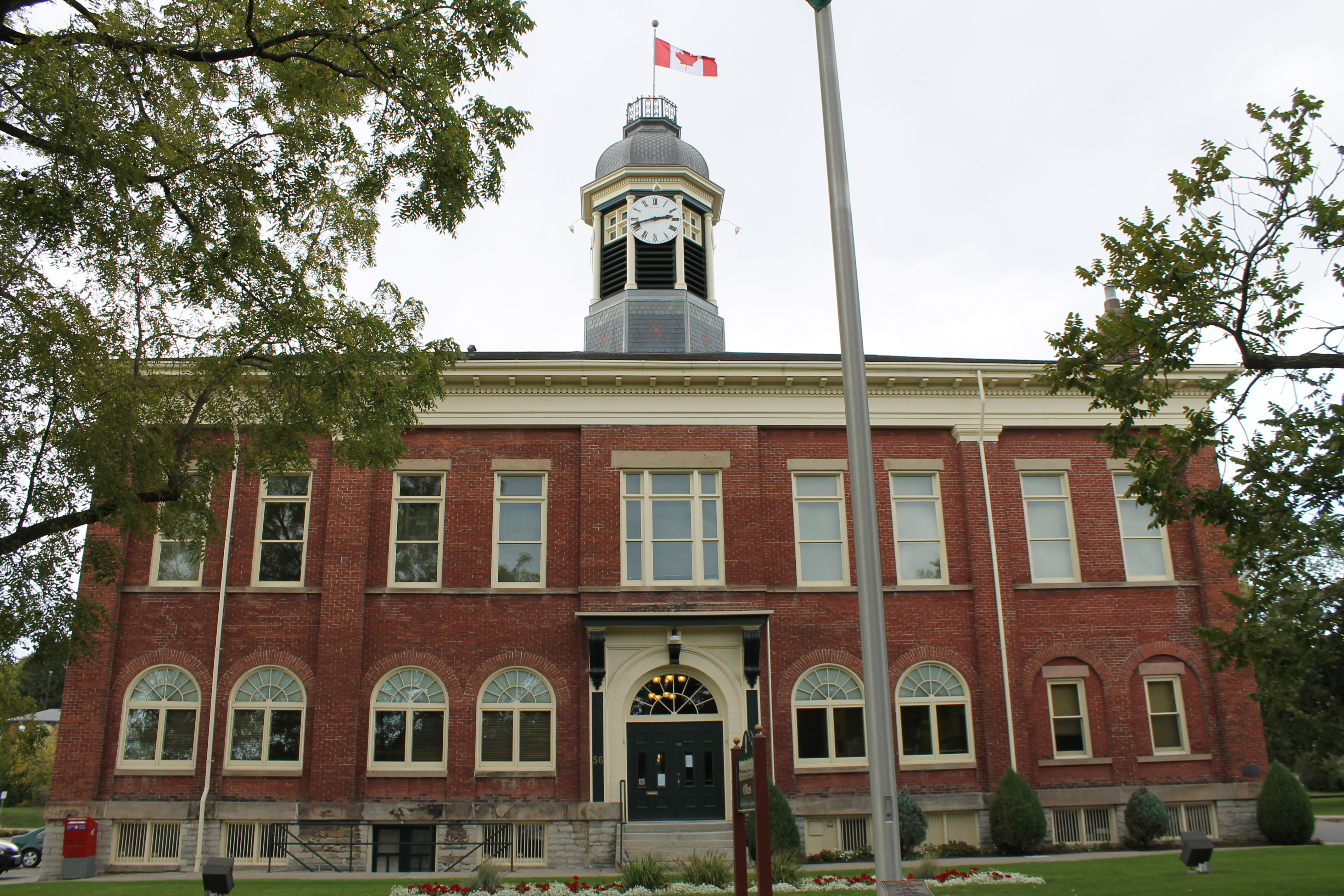 56 Queen Street, Port Hope, ON, Canada